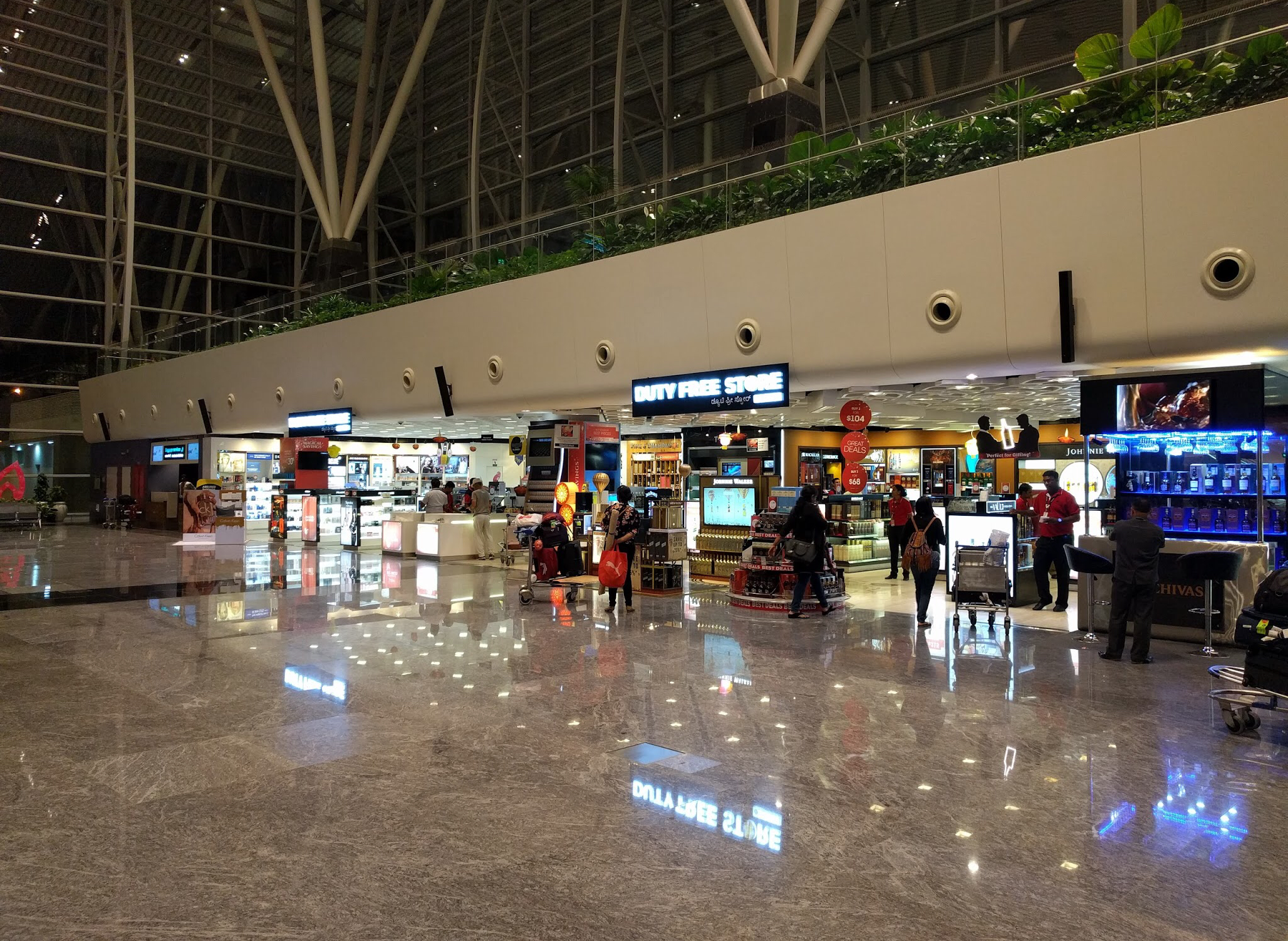 Duty Free at Kempegowda International Airport, Bangalore, Karnataka